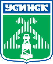 Usinsk (Komia), coat of arms